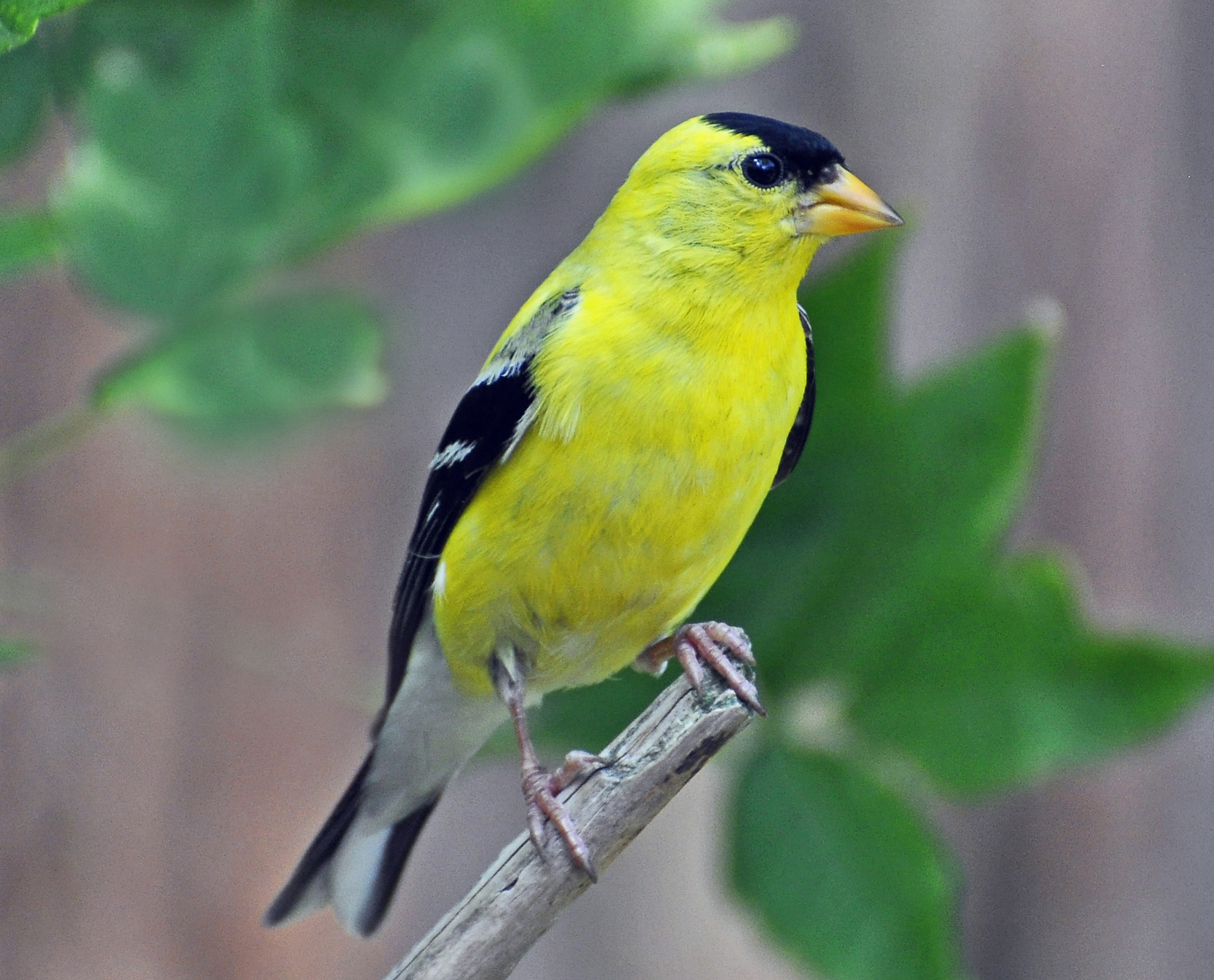 A male American Goldfinch in summer plumage in Michigan, USA.